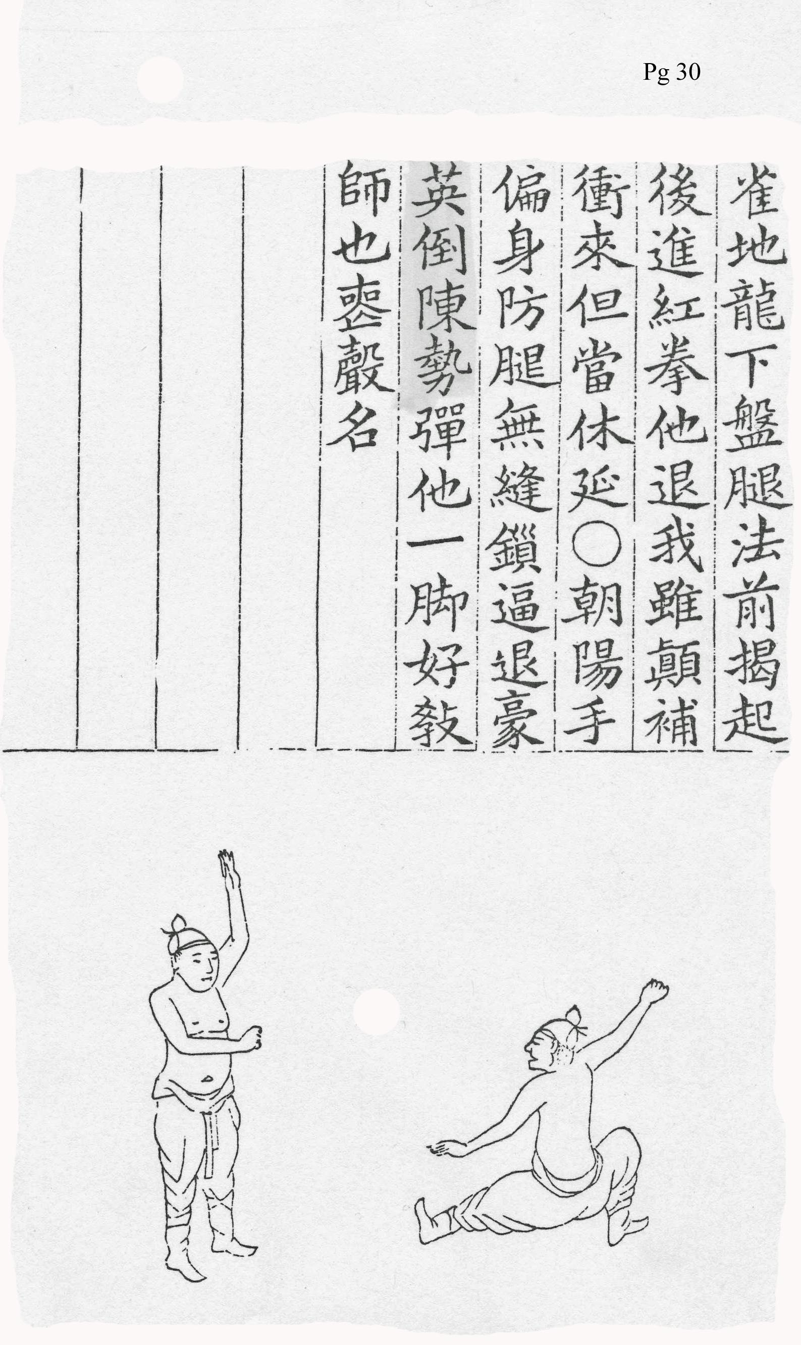 29th Page of Commentary and Illustrations